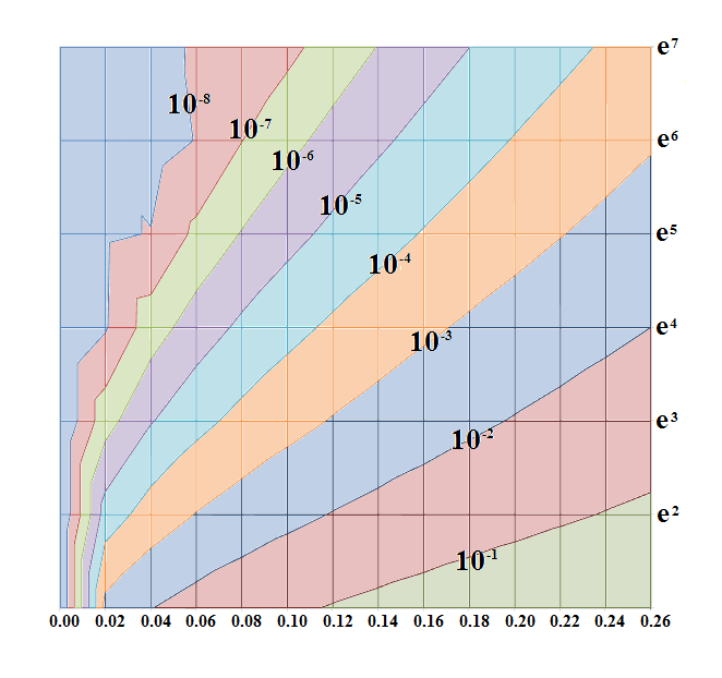 Contour graph of maximum error of the series expansion known as the equation of the center, in radians. The axes are orbital eccentricity vs the power of e at which the series is truncated.